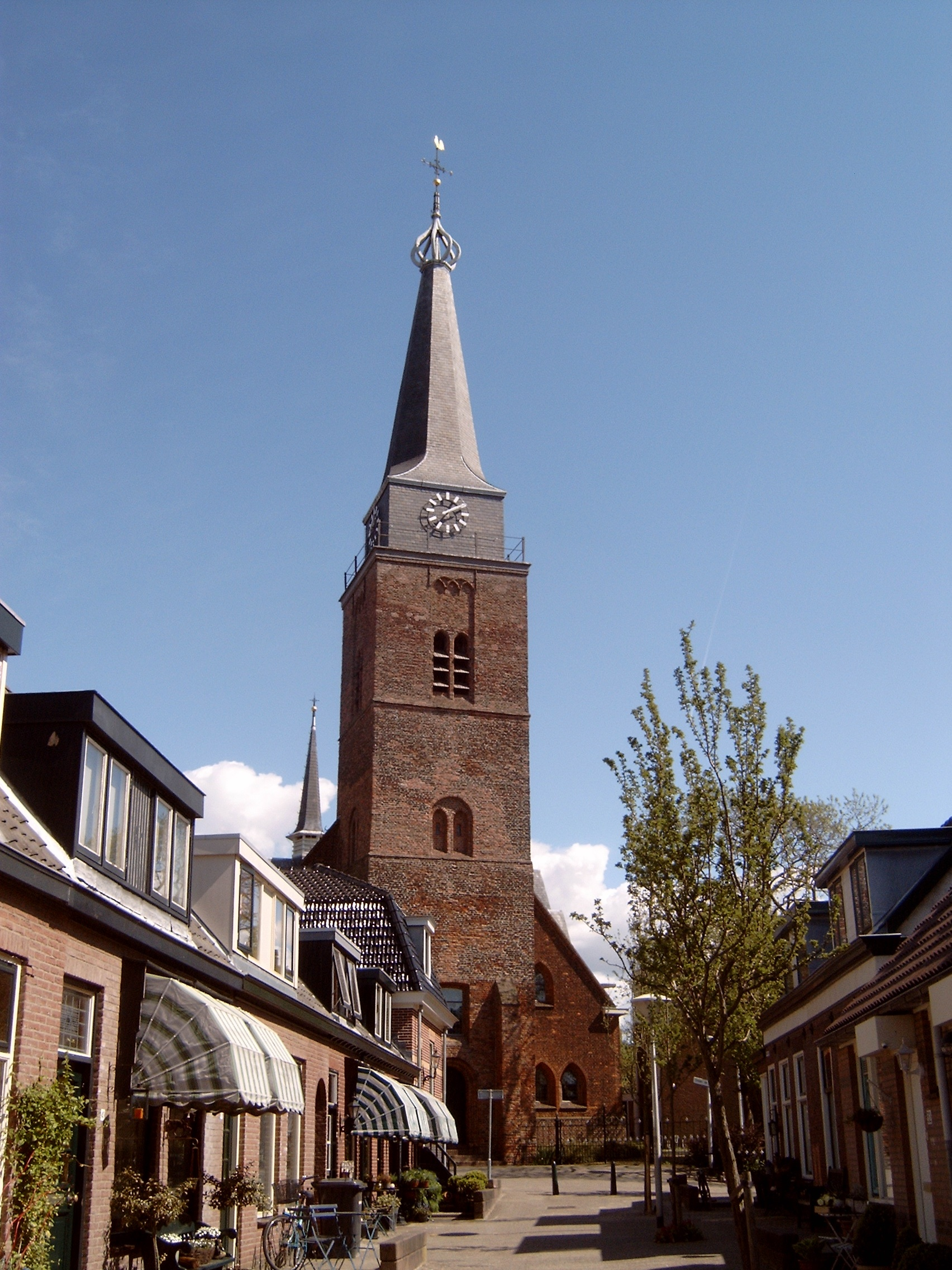 Hillegom, church